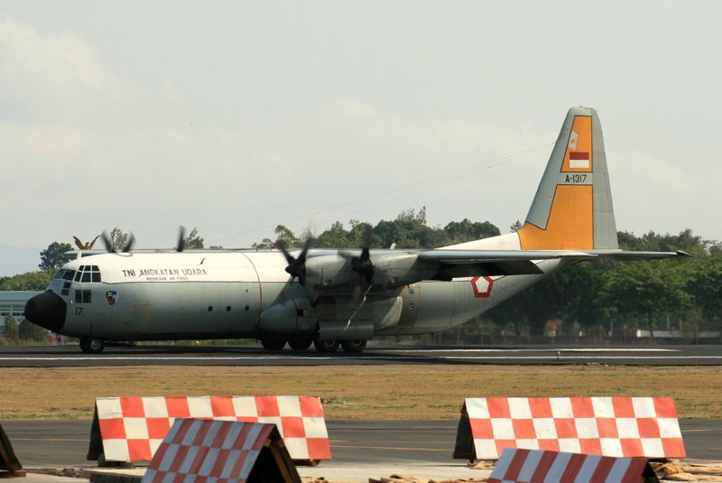 TNI-AU (Indonesian Air Force) Lockheed C-130H-30 Hercules serial number A-1317 lands at Yogyakarta's Adisucipto International Airport in Indonesia.